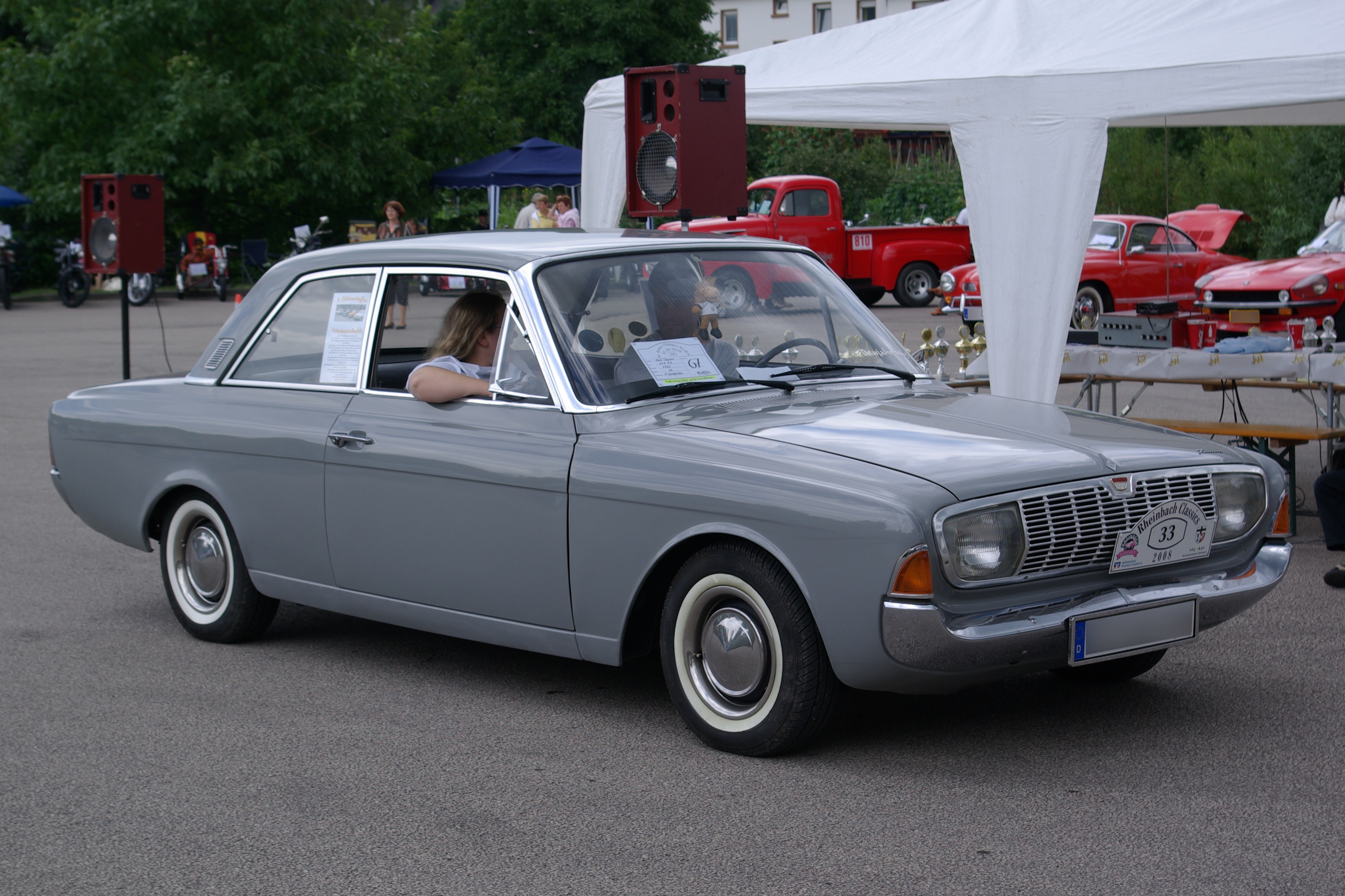 A Ford Taunus 17M (P5) built in 1965.